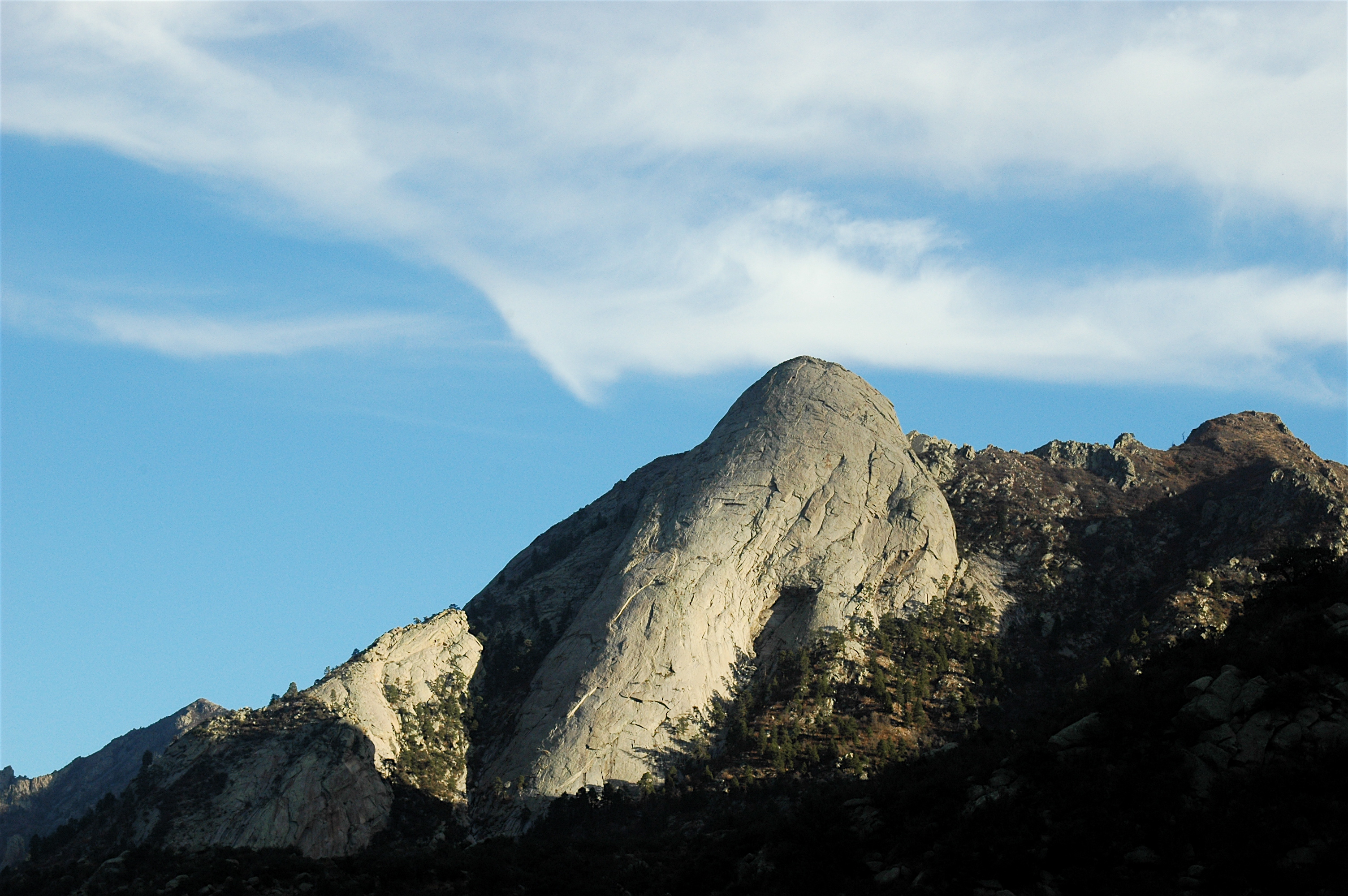 This photo was taken by me at the Organ Mountains.